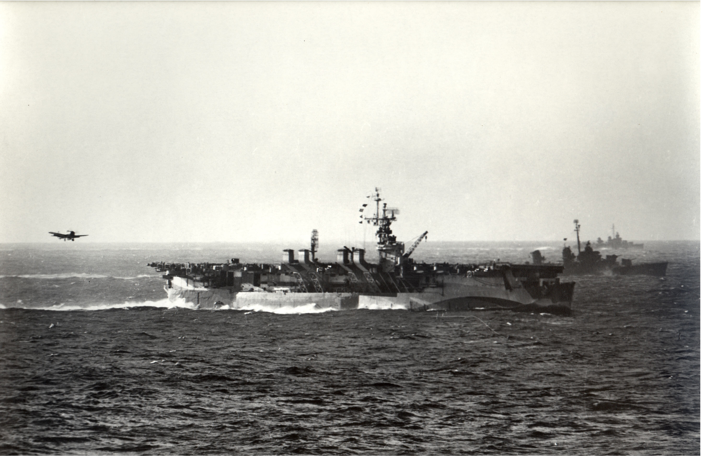 A U.S. Navy Grumman F6F Hellcat fighter approaches an Independence-class light aircraft carrier in 1944. As the carrier wears Camouflage Measure 32 or 33, Design 8A, it is either USS Independence (CVL-22) or USS Bataan (CVL-29). The picture is one in a group of pictures of the USS Cabot (CVL-28), but she did not wear any dazzle pattern camouflage. Two Fletcher-class destroyers are visible in the background.